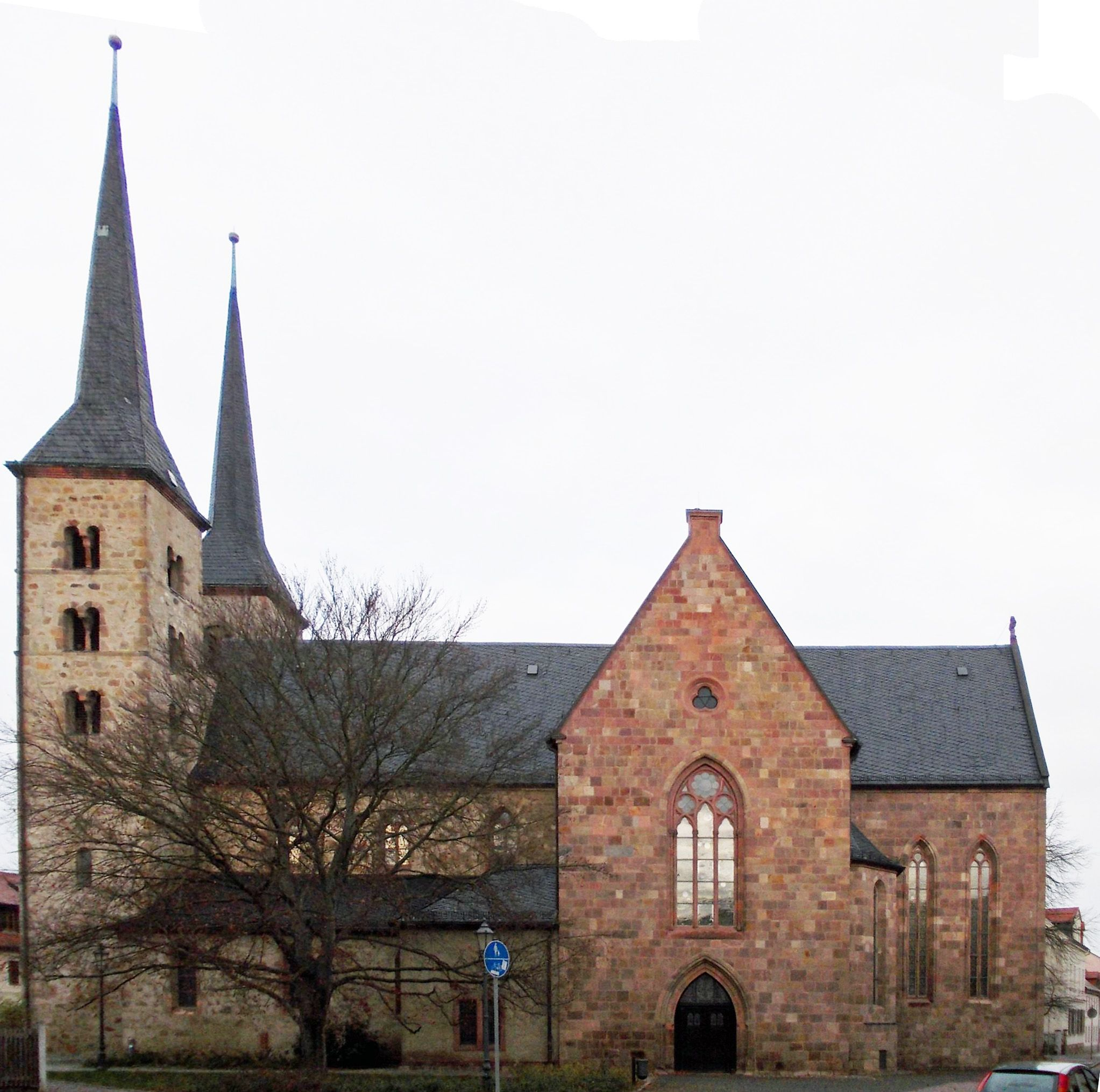 Our Lady's Church in Grimma (Leipzig district, Saxony)